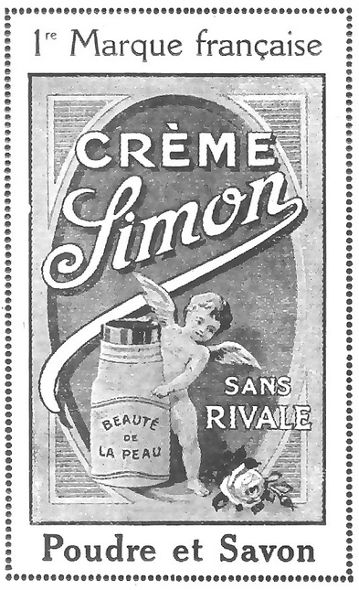 Creme Simon Powder & Soap: 1st French Brand, Without Rivals.